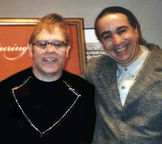 San Francisco - Legion of Honor: Michael Laucke With Elton John, during a red carpet event for AIDS. One Million dollars was collected in a spectacular event where Sharon Stone was the guest of honor. the mayor of San Francisco was host for the evening. As Michael's assistant for many years, I had the pleasure meet Elton and to snap this personal photo. Dave Bradley If you use this photo, you must use the correct attribution, which is at least: Michael Laucke with Elton John. Michael Laucke is proud to be original founding director and Honorary charter member of the Board of Directors of the MAC AIDS Foundation (Estée Lauder) where he distributed $120 million in association with the Elton John AIDS Foundation. The MAC AIDS Fund was established in 1994 by Michael Laucke’s dear childhood friend, Frank Angelo, and Frank Toskin, co-founders of MAC Cosmetics, Inc. to support men, women and children affected by HIV/AIDS globally.